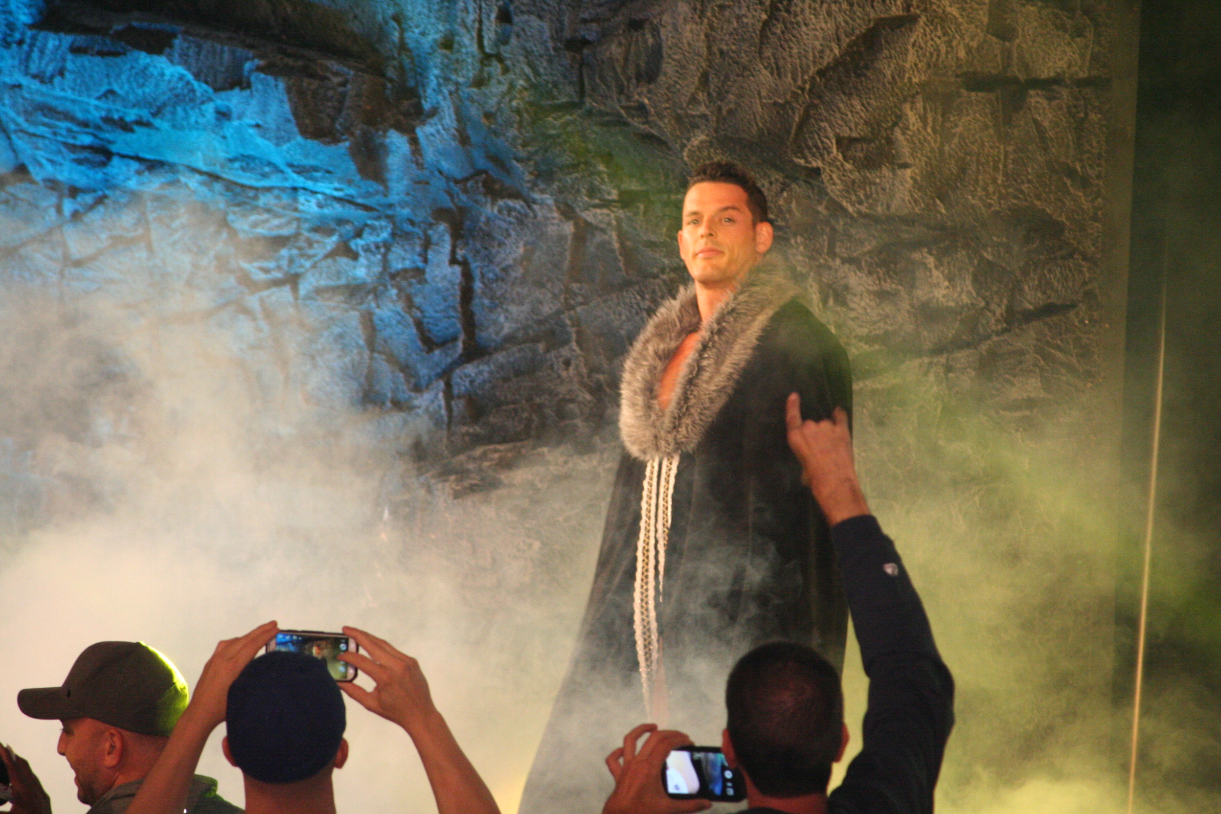 Jessie Godderz enter at Bound for Glory 2015.